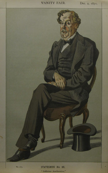 Caricature of Alexander Baillie-Cochrane M.P. (1816-1890). Caption read "Judicious Amelioration".